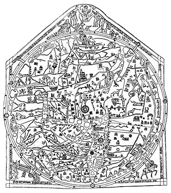 Hereford Mapa Mundi, c. 1280. Image from the 1905-1906 Jewish Encyclopedia.